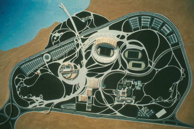 Lattakia's Sport city.